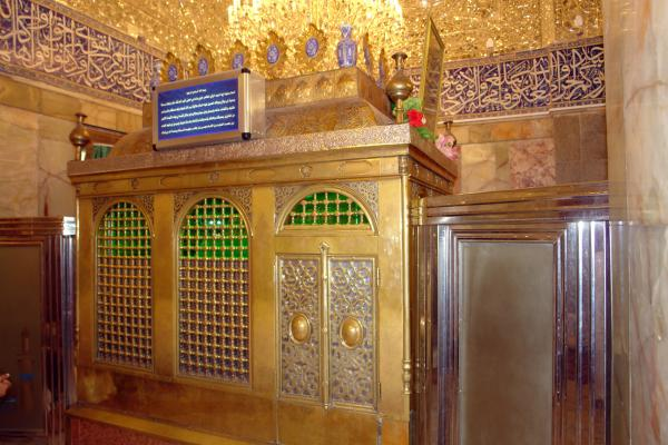 Sayed Ibrahim Al-Mujab is buried inside the Holy Shrine of Imam Husayn ibn Ali right where he was martyred.